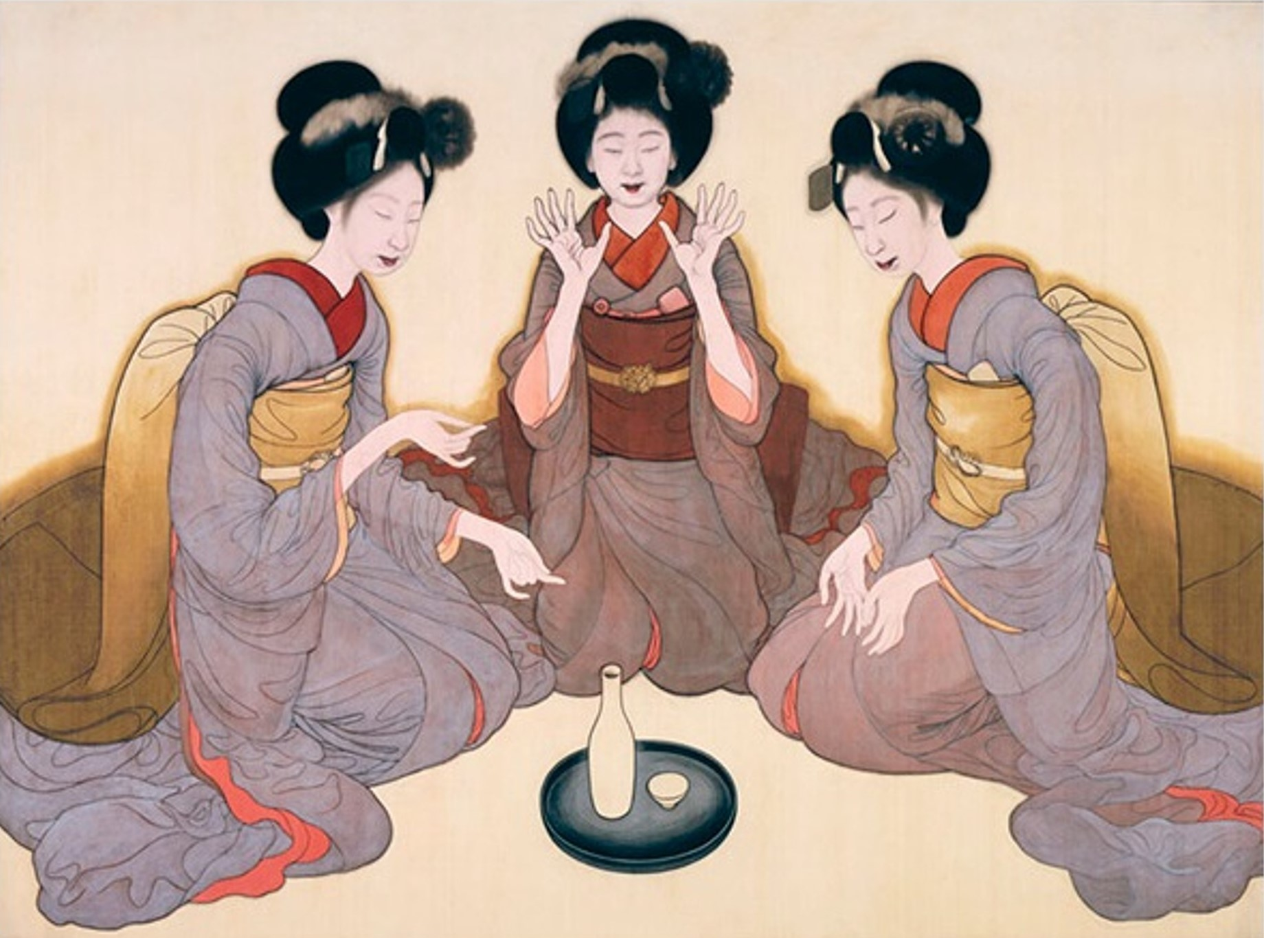 Okamoto Shinsō: Three Maiko, plaxing Ken